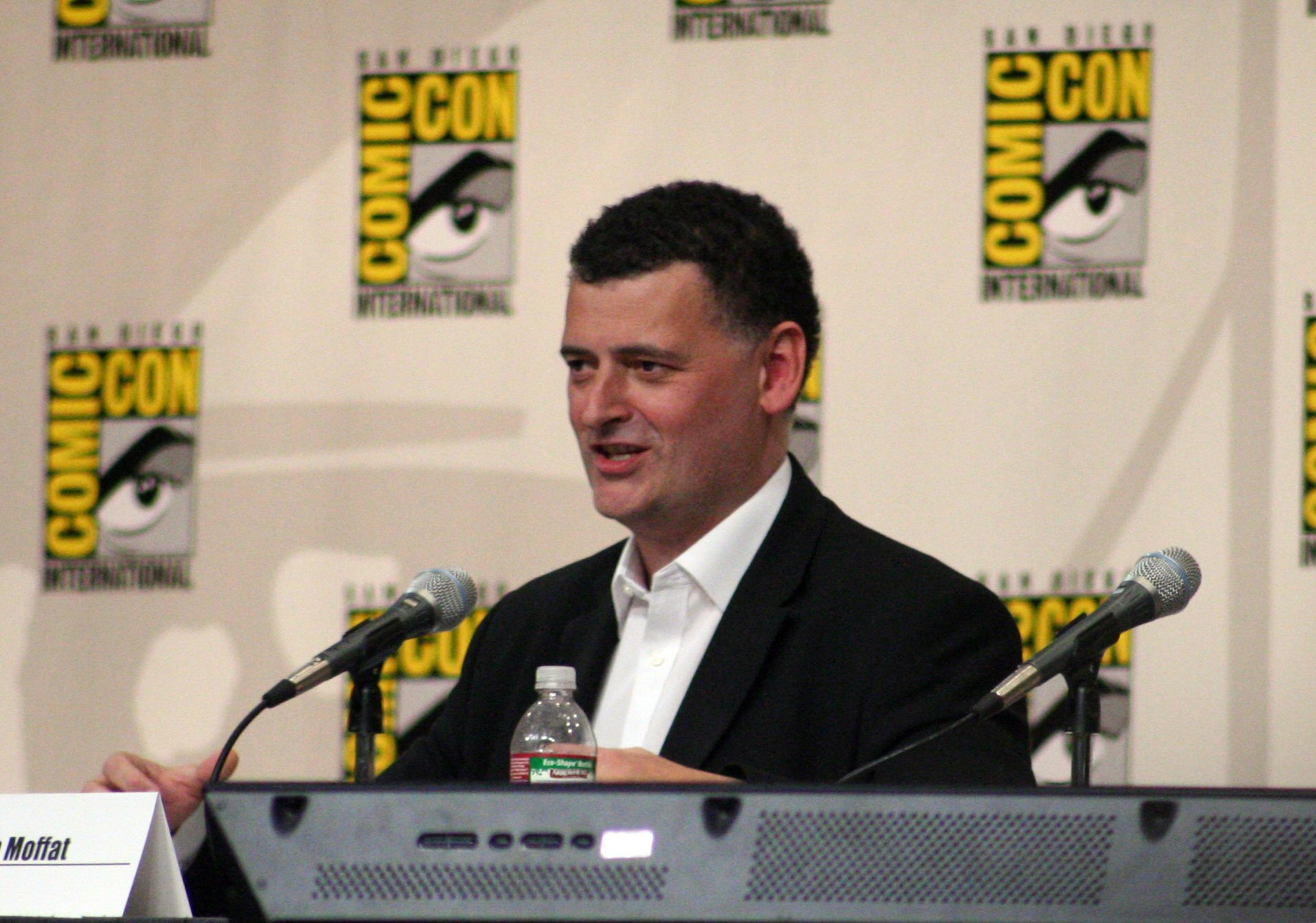 Steven Moffat at Comic Con 2008